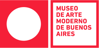 Logo of the Buenos Aires Museum of Modern Art